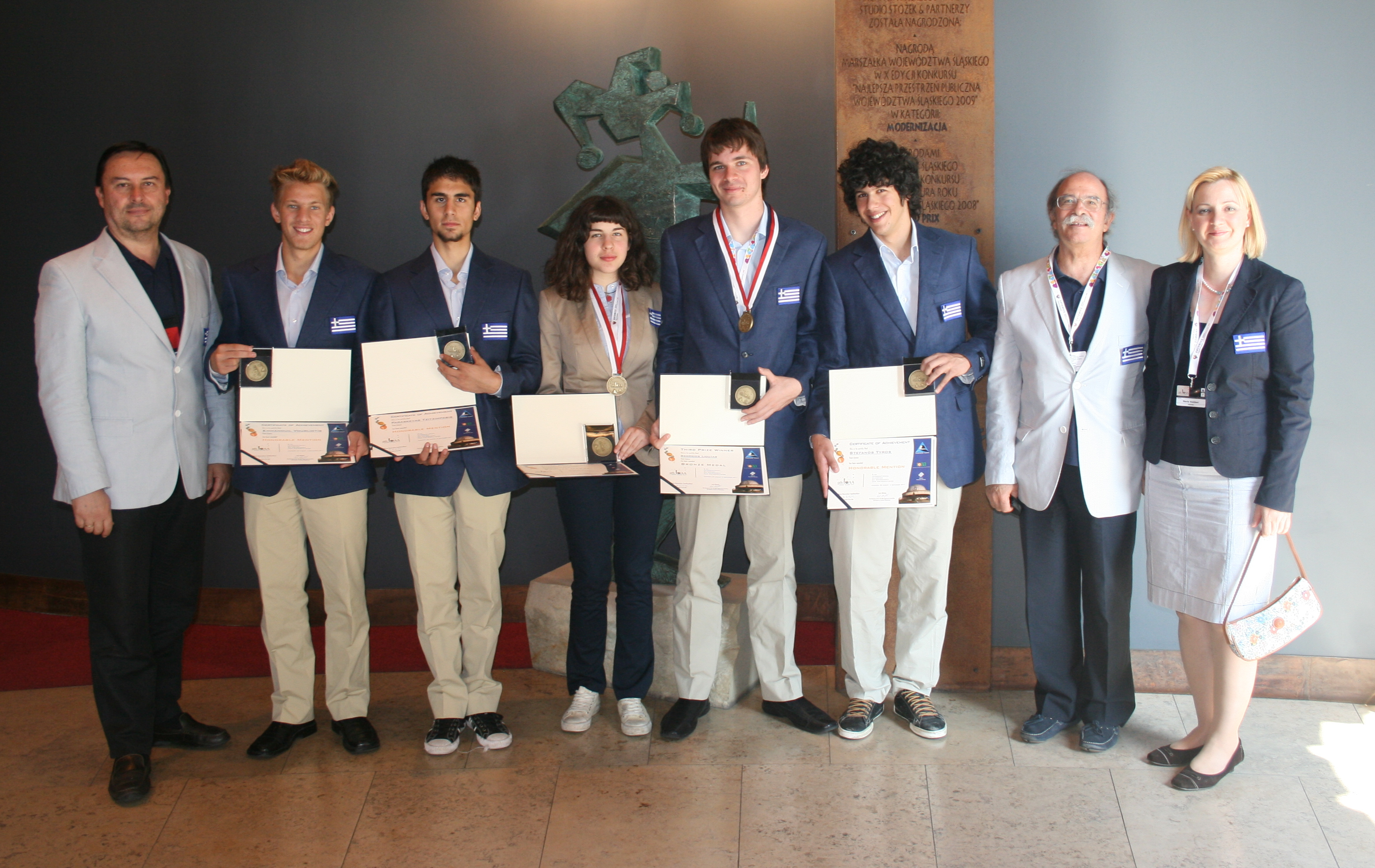 Image of John Seiradakis at the International Olympiad for Astronomy and Astrophysics